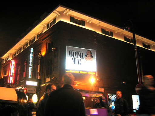 London, England: Prince Edward Theatre at night